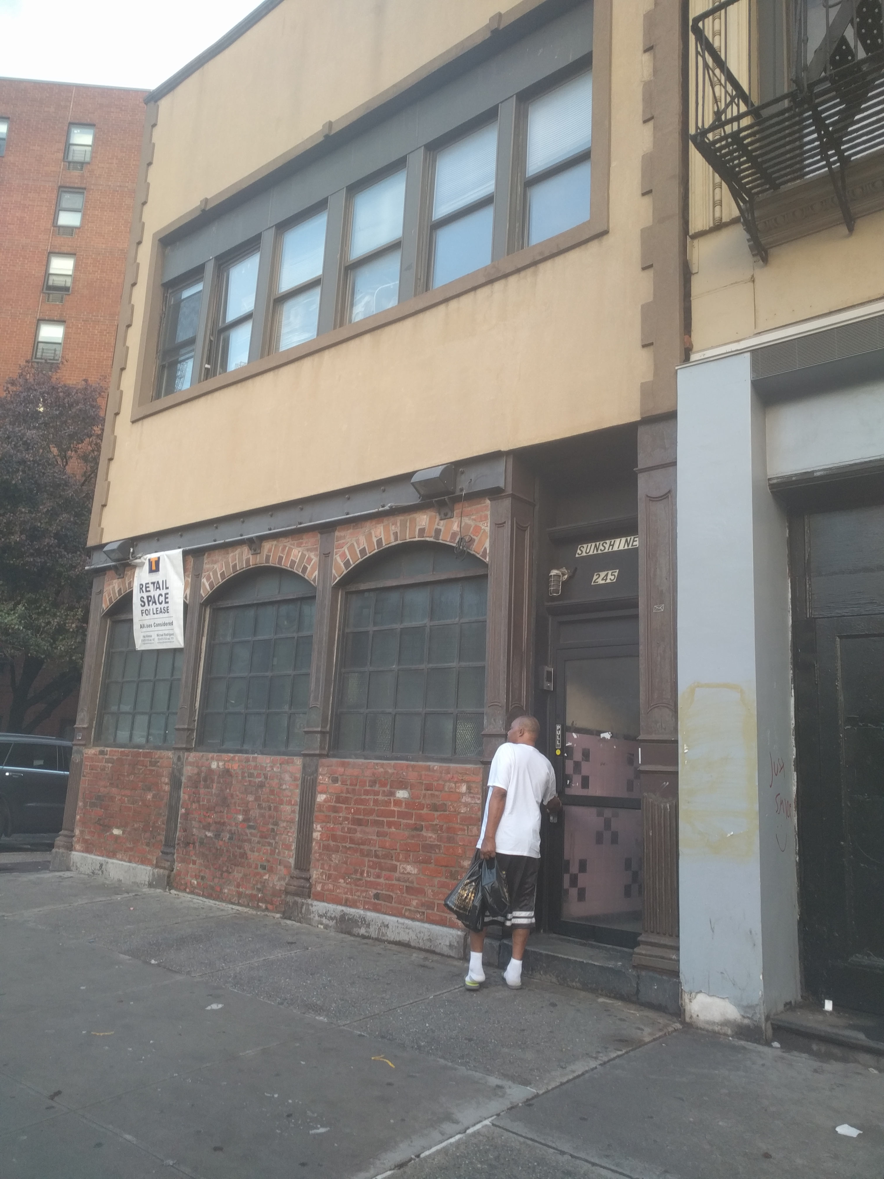 flophouse